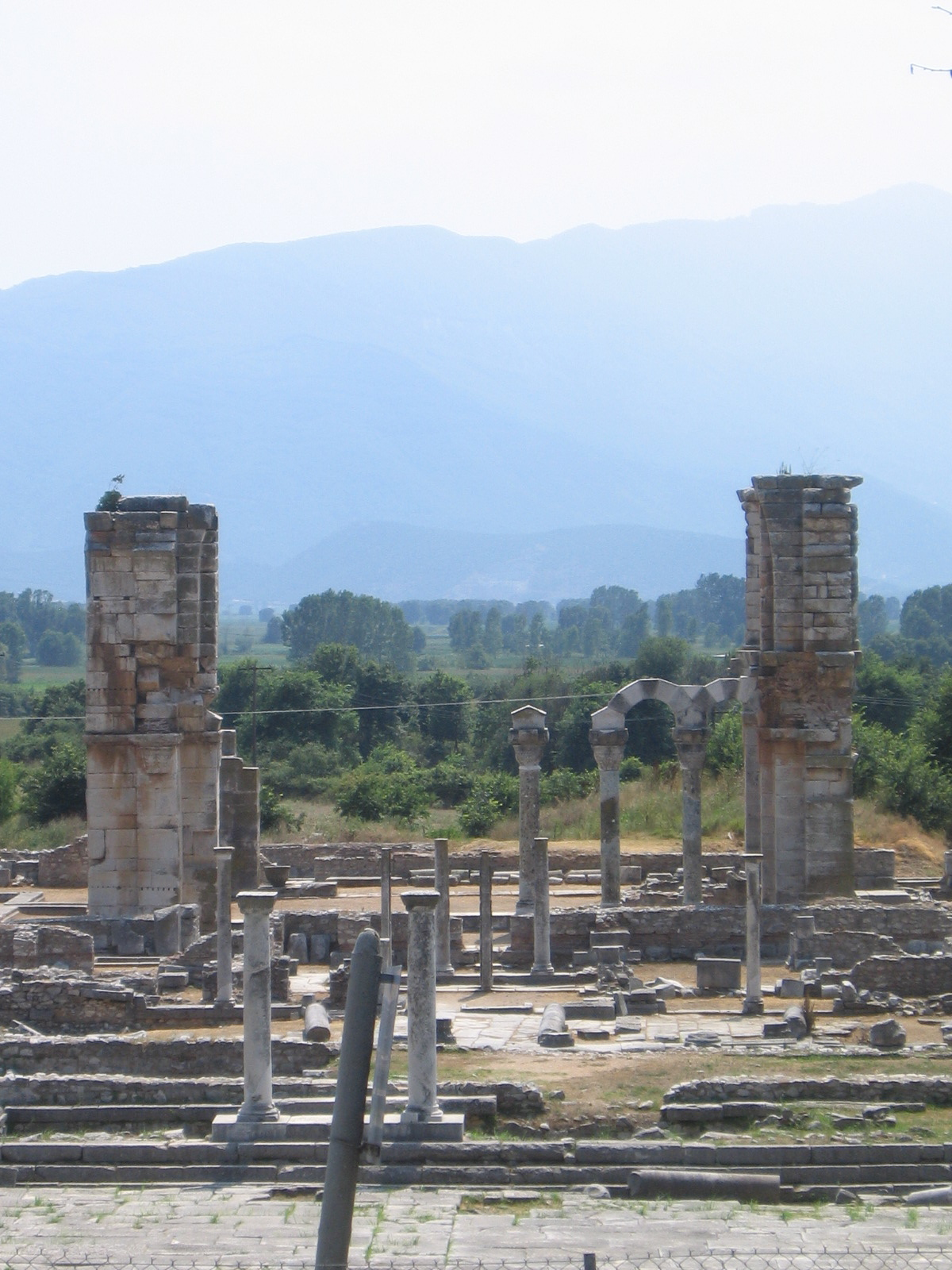 Early Christian cathedral with temple ruins in foreground at Philippi